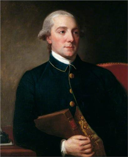 Harry Peckham (1740– 1787) was a King's Counsel, judge and sportsman who toured Europe and wrote a series of letters